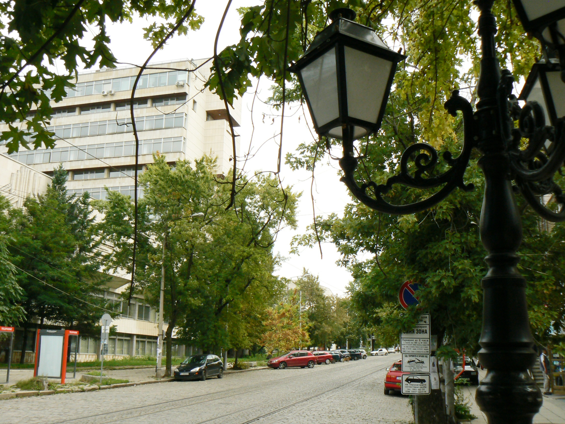 Sofia, Hristo Smirnenski Street and the University of Architecture, Civil Engineering and Geodesy